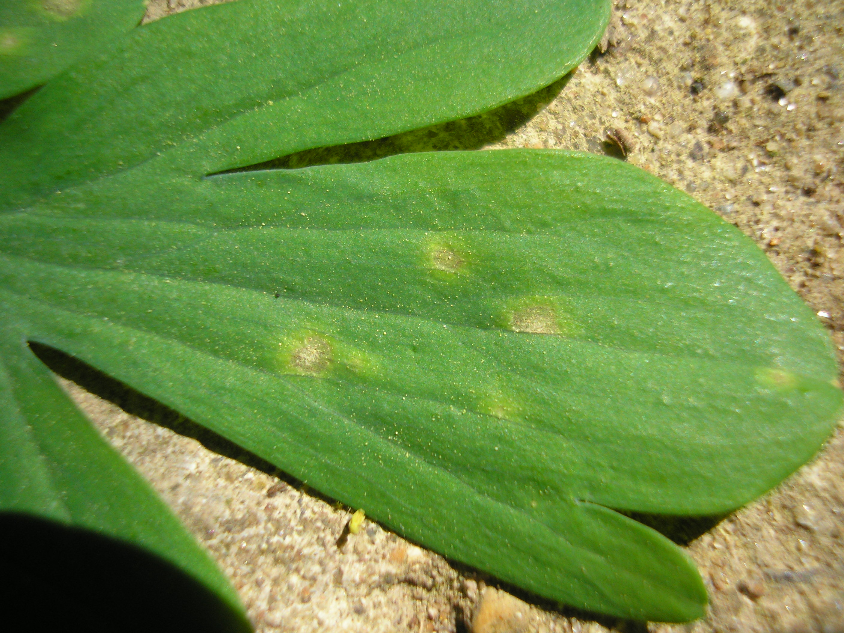 Corydalis cava infected by Entyloma corydalis